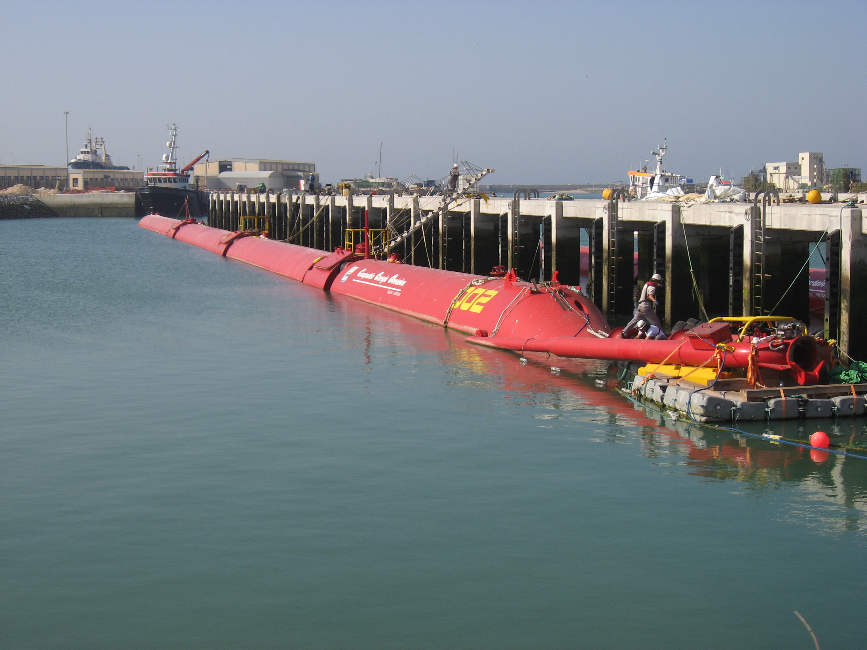 A Pelamis wave energy converter during the final tests at the port of Peniche, Portugal